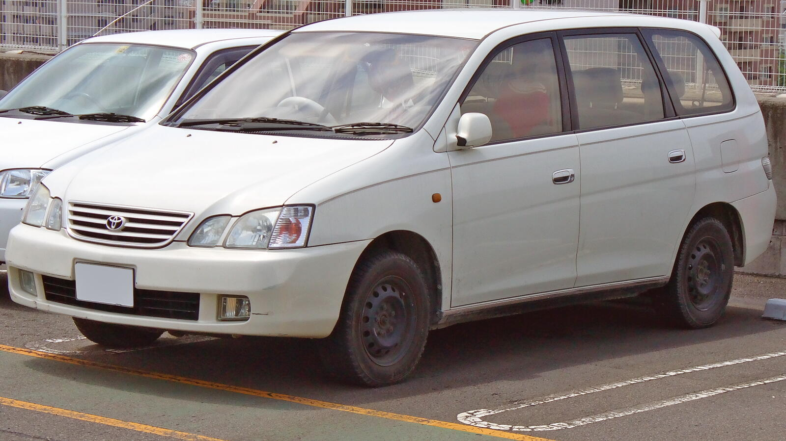 Toyota Gaia